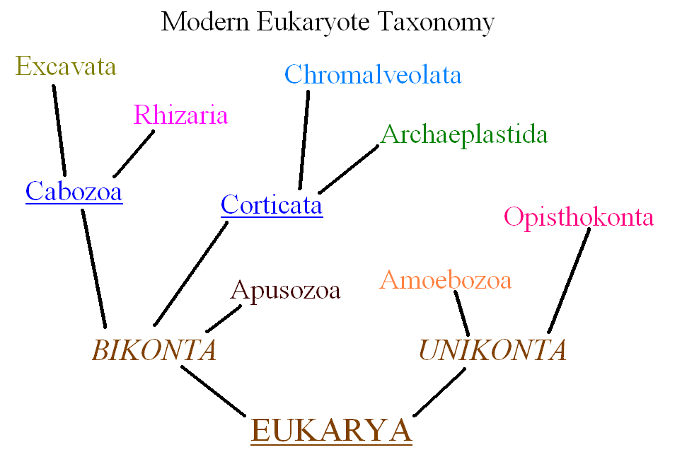 Made by myself, an illustration of the modern eukaryote taxonomy.